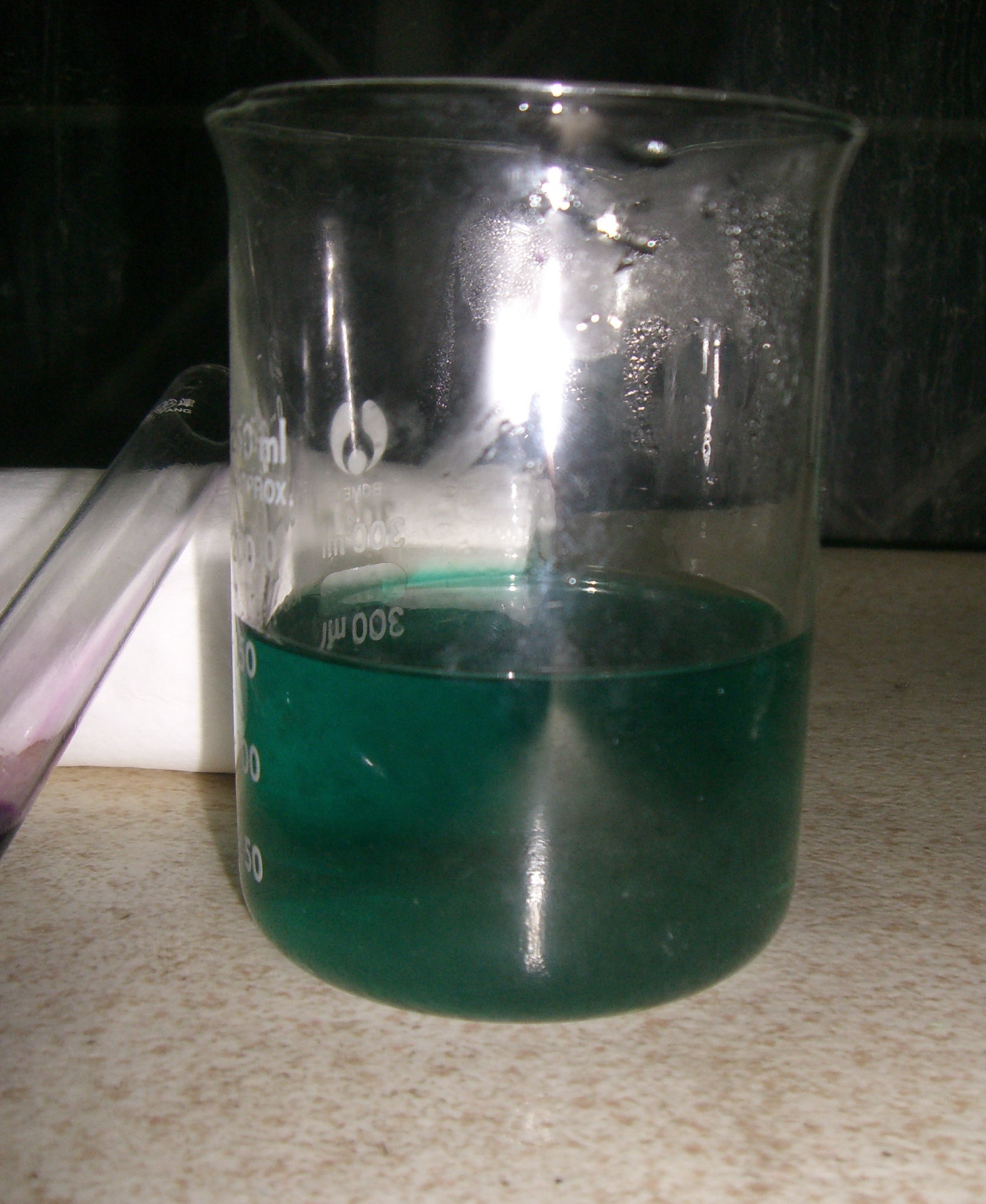 deep green colour of manganate (MnO42−) ion made by treating hot potassium permanganate solution with sodium hydroxide